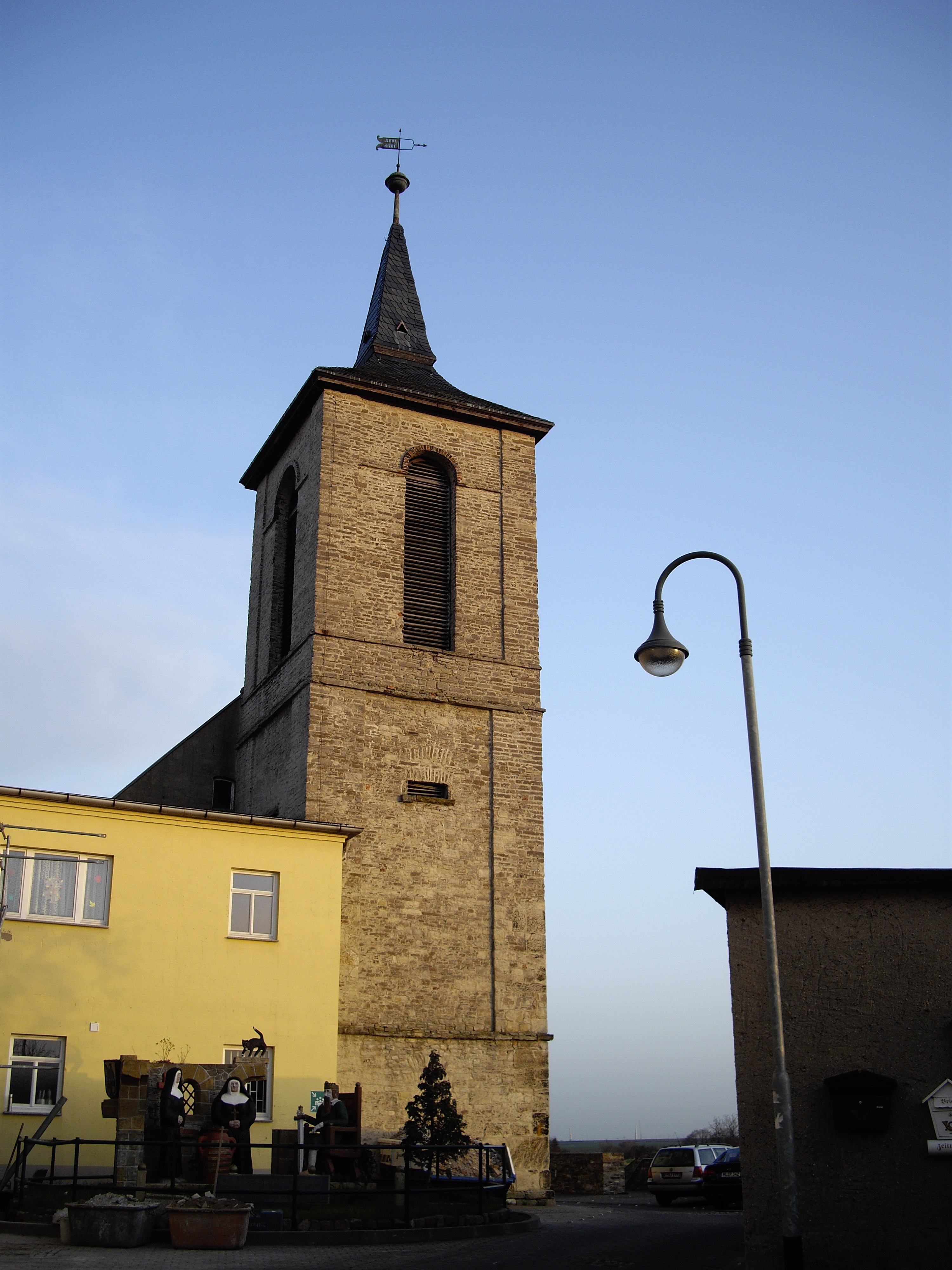 tower of the former Monastery in the german town Gerbstedt